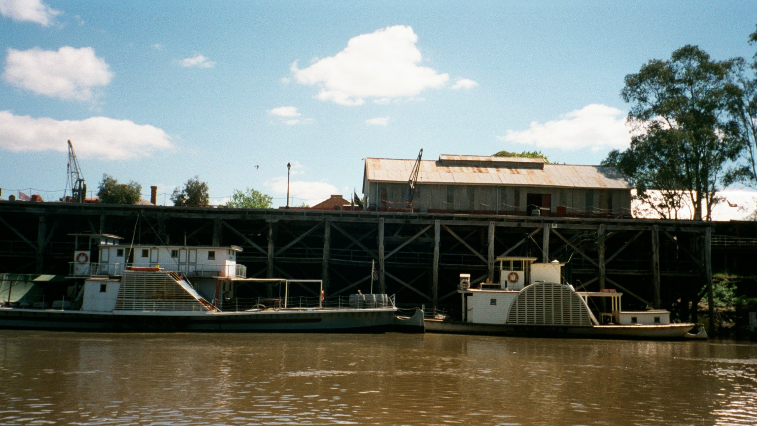 quay and River Murray, Echuca, Victoria, Australia